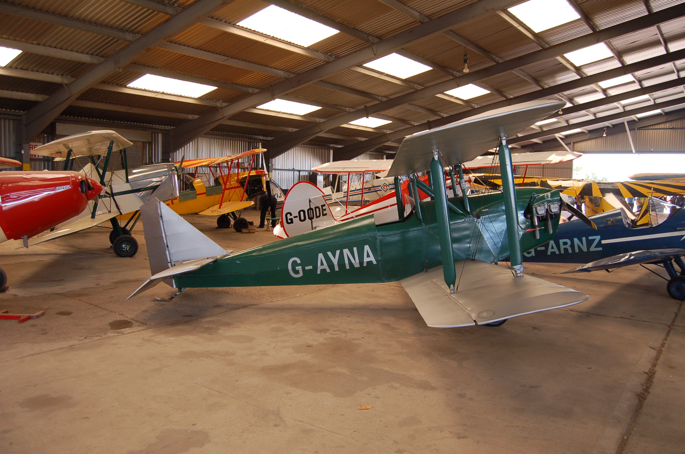 Currie Wot at Headcorn,Kent,22/09/12.